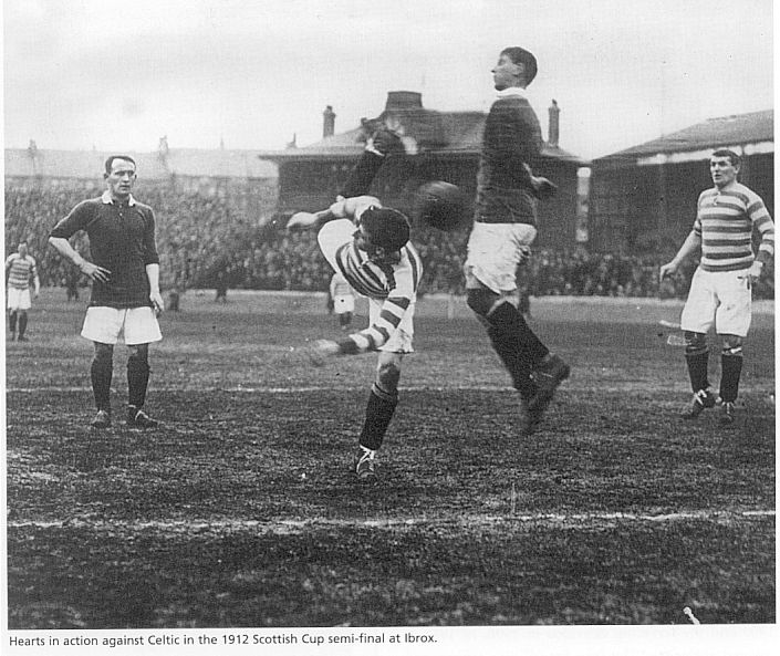 picture of a match between Celtic FC and Hearts